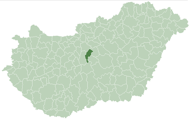 Location of subregion Gyál, Hungary